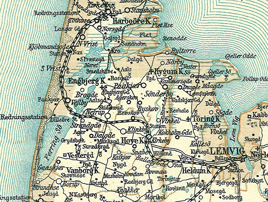 Map of Ferring Sø south of Limfjorden in Denmark